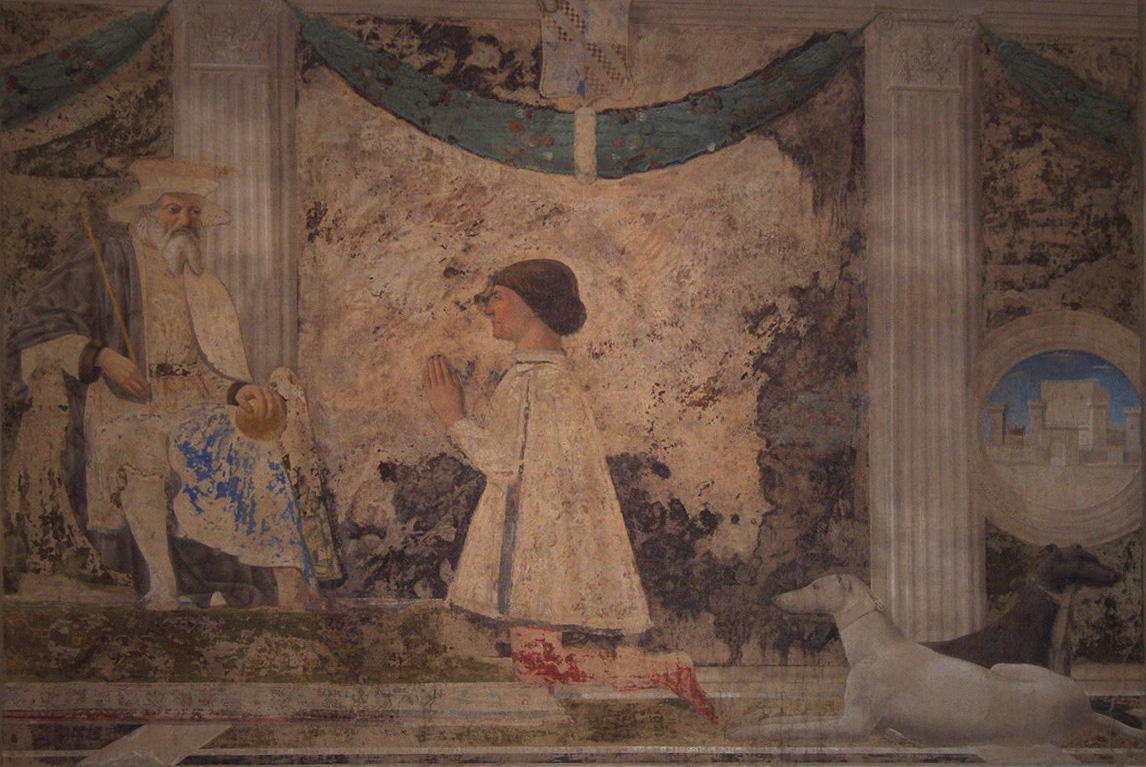 Painting Sigismondo Pandolfo Malatesta praying in front of St. Sigismondo (by Piero della Francesca, 1451); Relic Chapel of the Malatesta Temple, Rimini, Italy